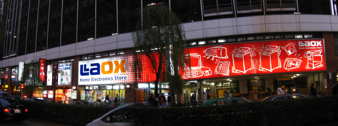 LAOX Kichijoji shop of past days.